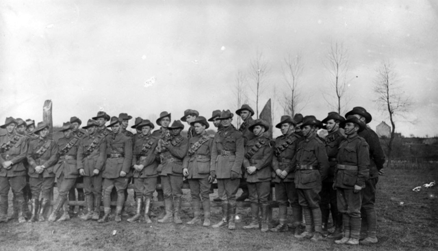 Members of the transport section of the Australian 18th Infantry Battalion at Walcourt, France, during World War I.